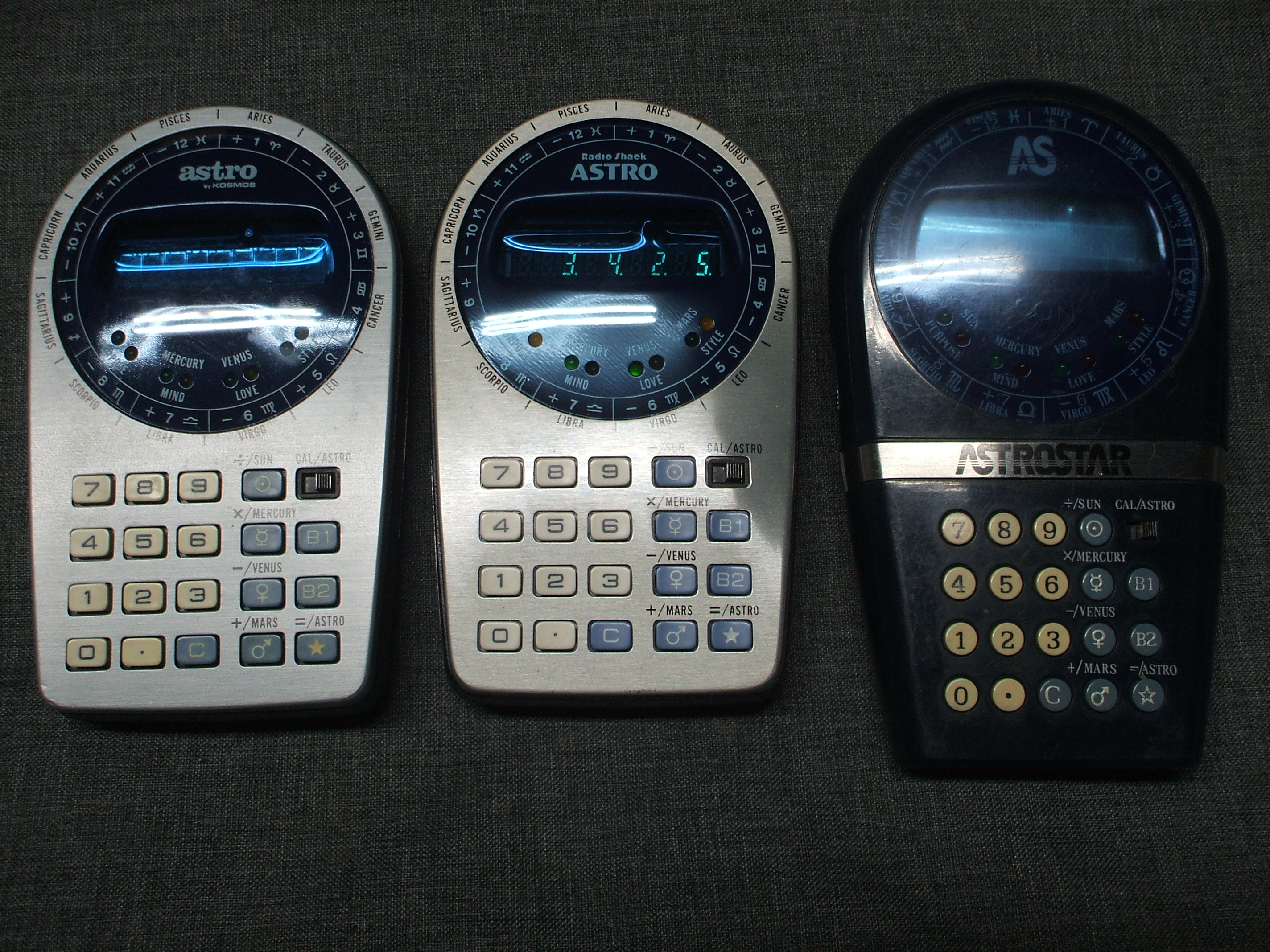 KOSMOS astro, RadioShack ASTRO EC-312 and BANDAI ASTROSTAR